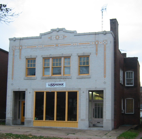 KDHX radio station building external view, St. Louis.